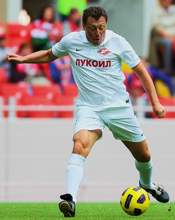 Valeri Shmarov